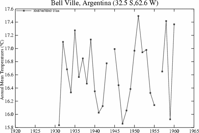 Graph of air average temperatures 1931 1960 city of Bell Ville, Córdoba province, Argentina